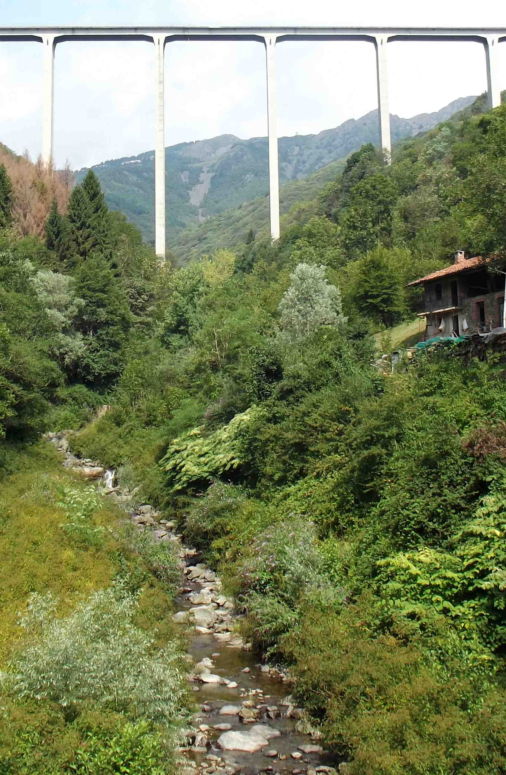 Rio Poala (BI, Italy)